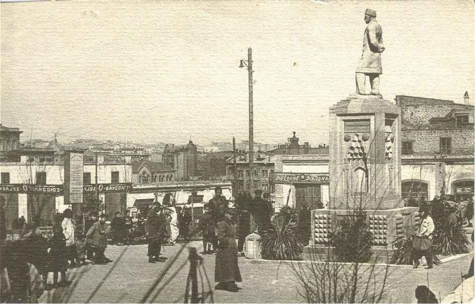 Sabir Garden in Baku